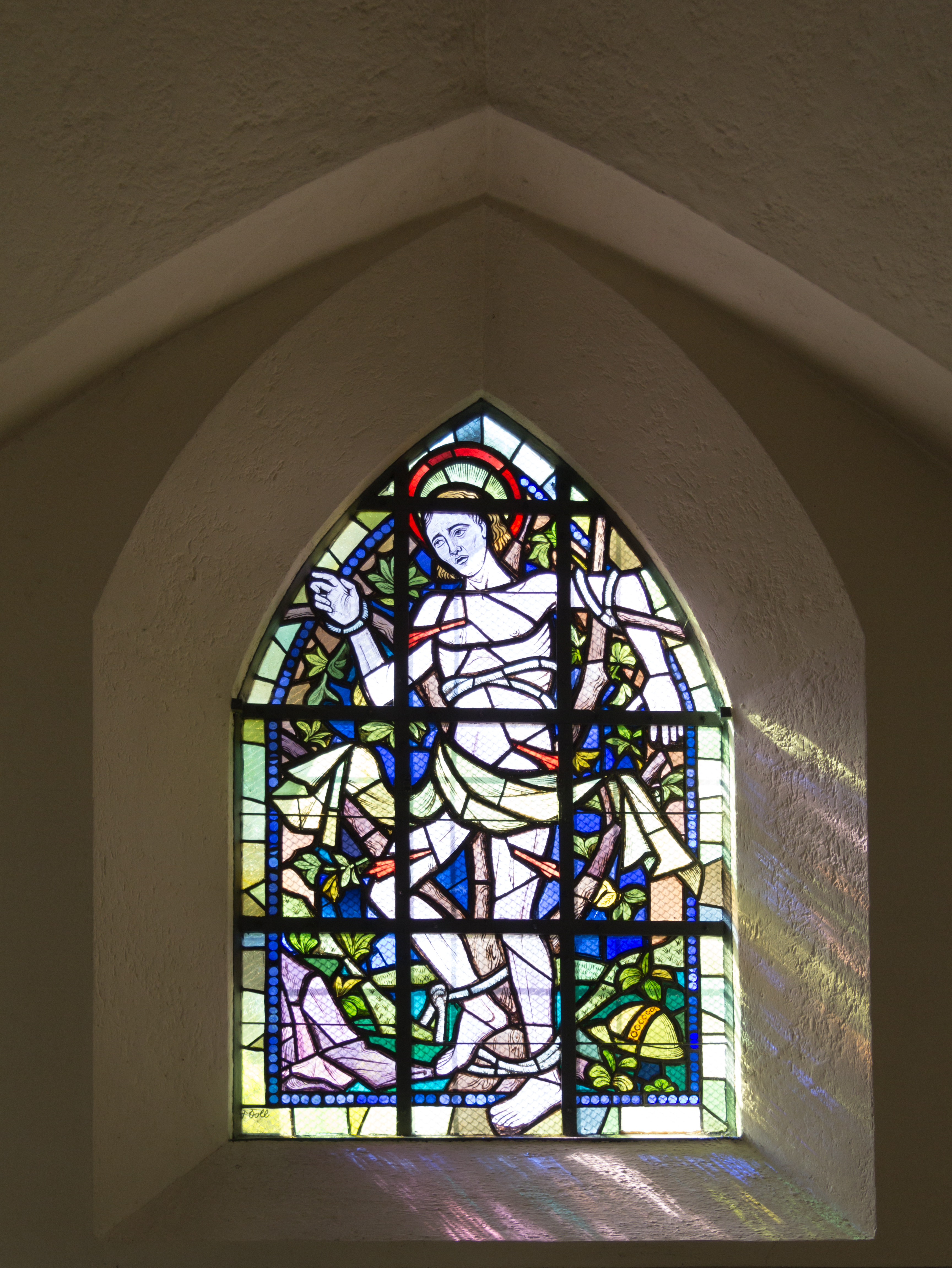 One of the gothic style windows of the parish church "Leiden Christi" in Munich. This is a photograph of an architectural monument.